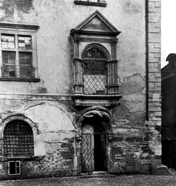 Wrocław, old cloth house, demolished in 1859, south-east corner